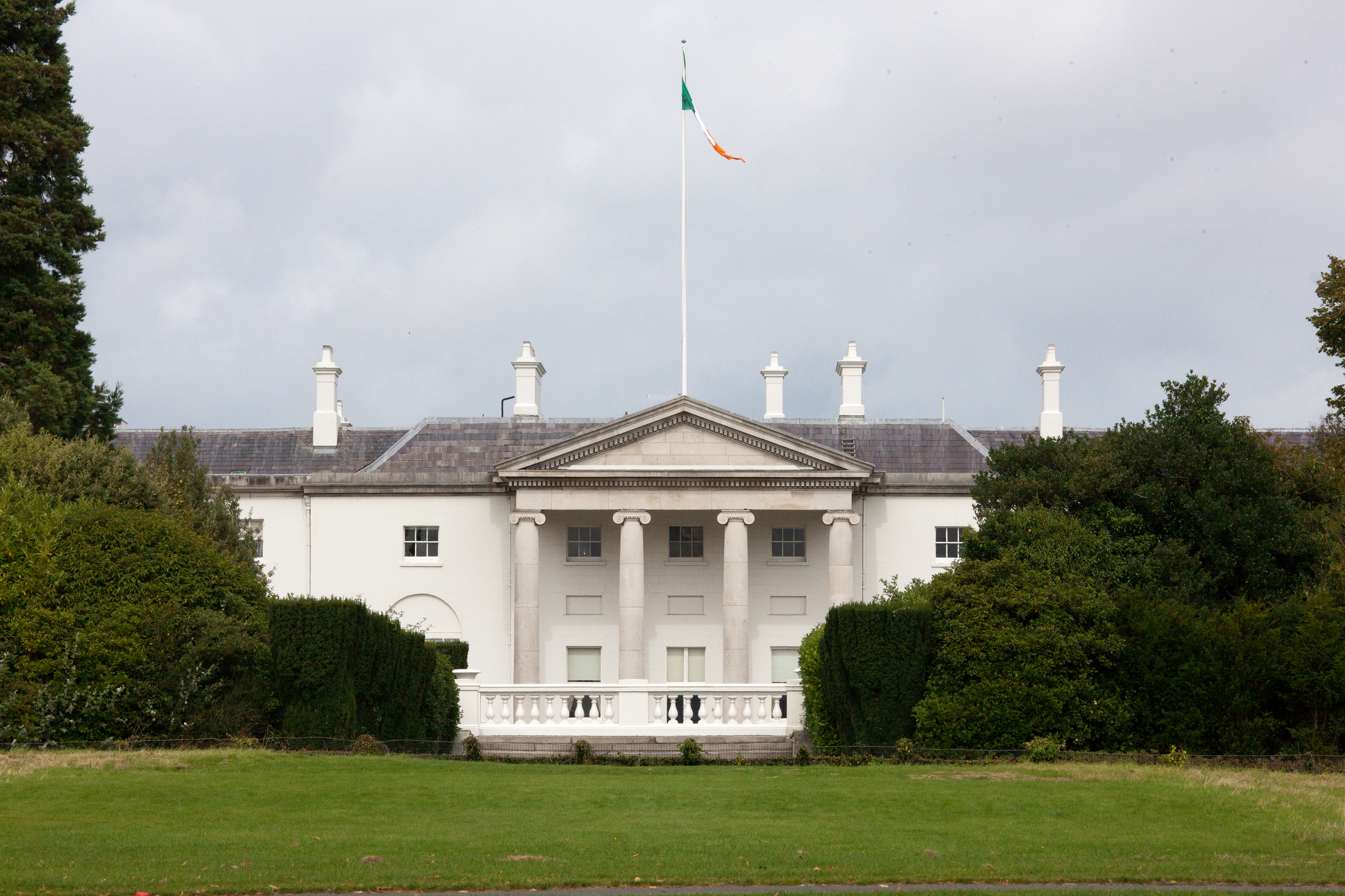 Áras an Uachtaráin in Dublin, Ireland. The official residence of the President of Ireland.